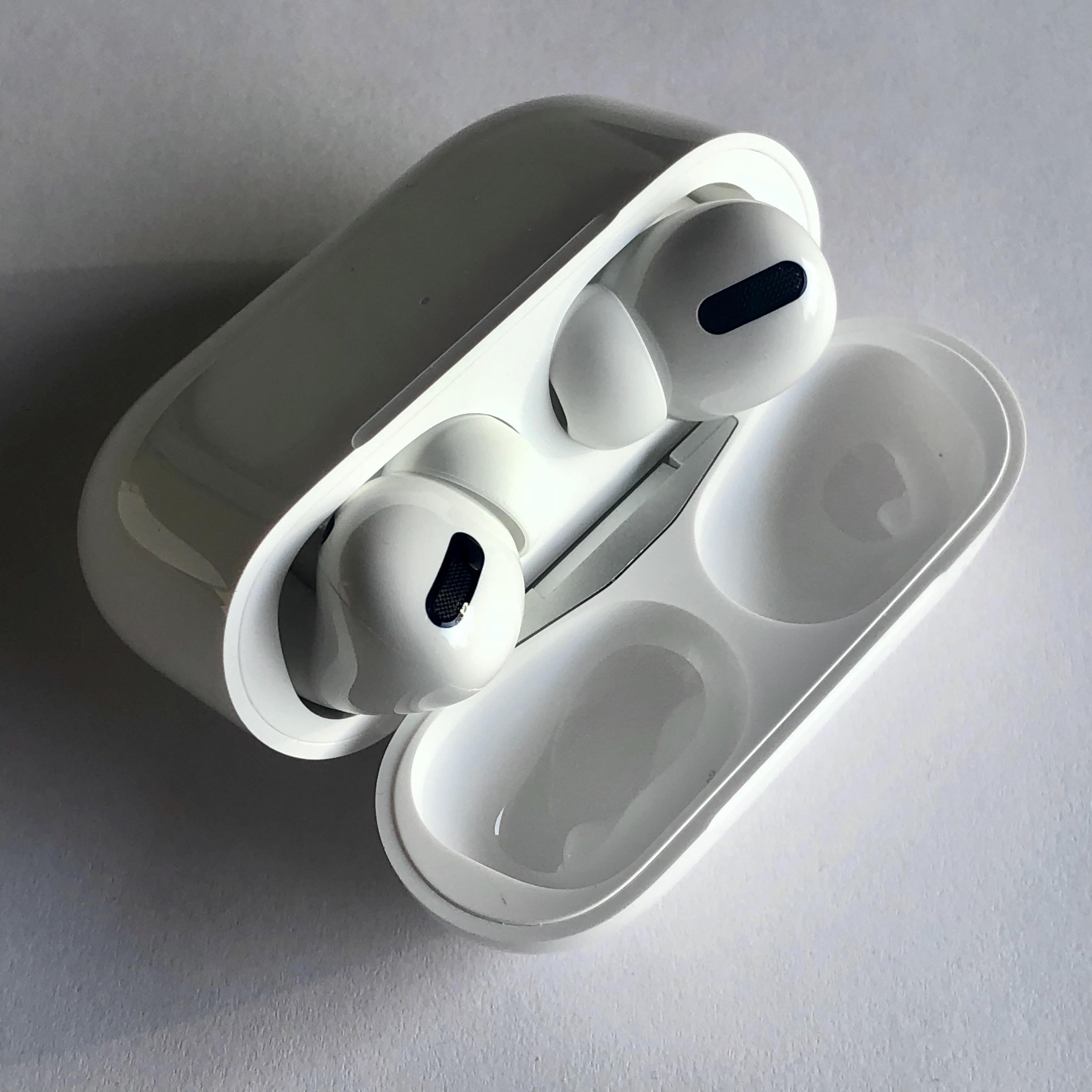 AirPods Pro